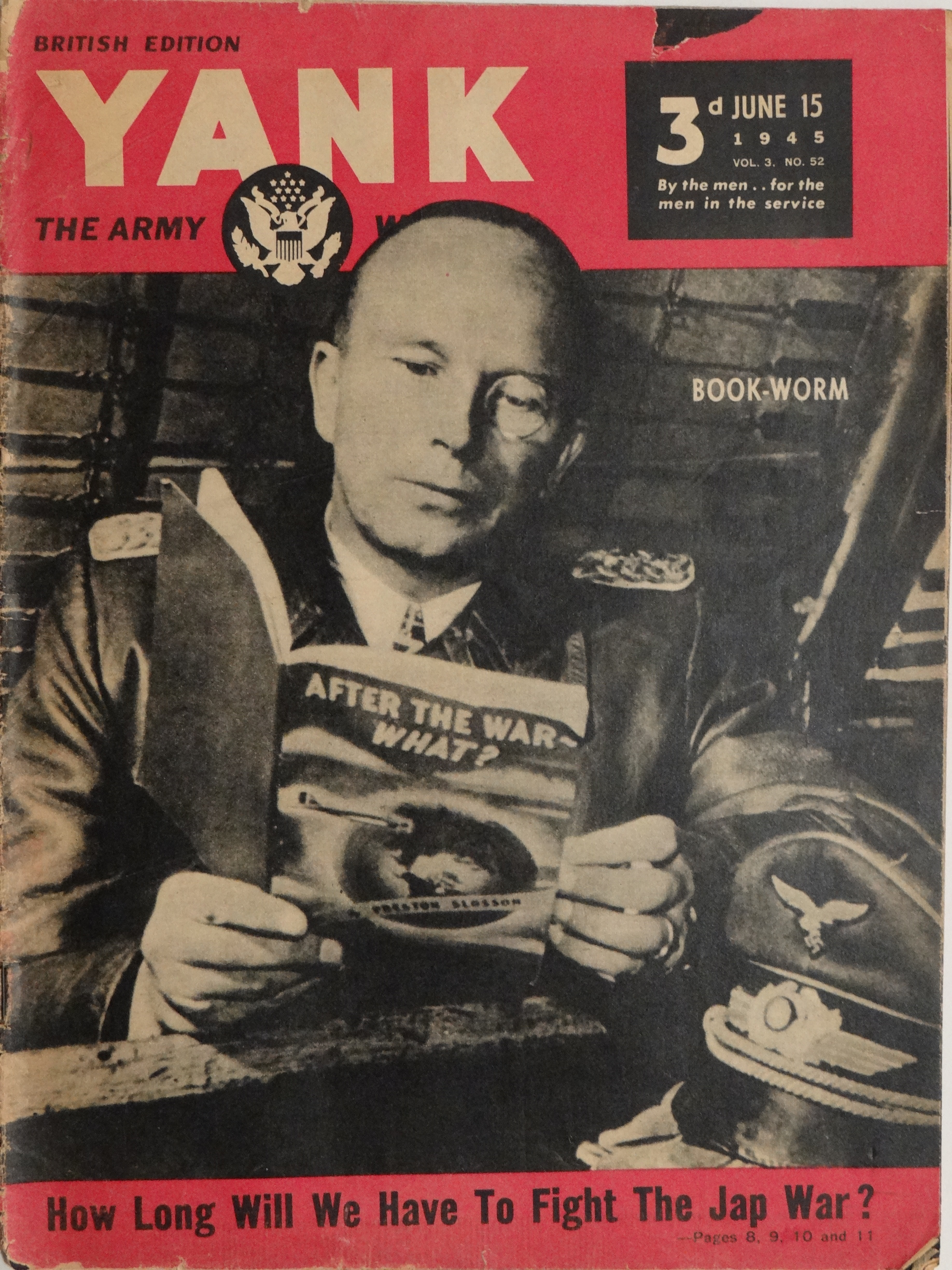 Cover photo of German Lt. Gen. Unlrich Kessler, who was picked up from a U-boat; he is shown in the galley of a Coast Guard boat en route to Portsmouth, New Hampshire. Photo appeared on the the June 15, 1945 British edition of Yank, the Army Weekly, a weekly U.S. Army magazine fully staffed by enlisted men.